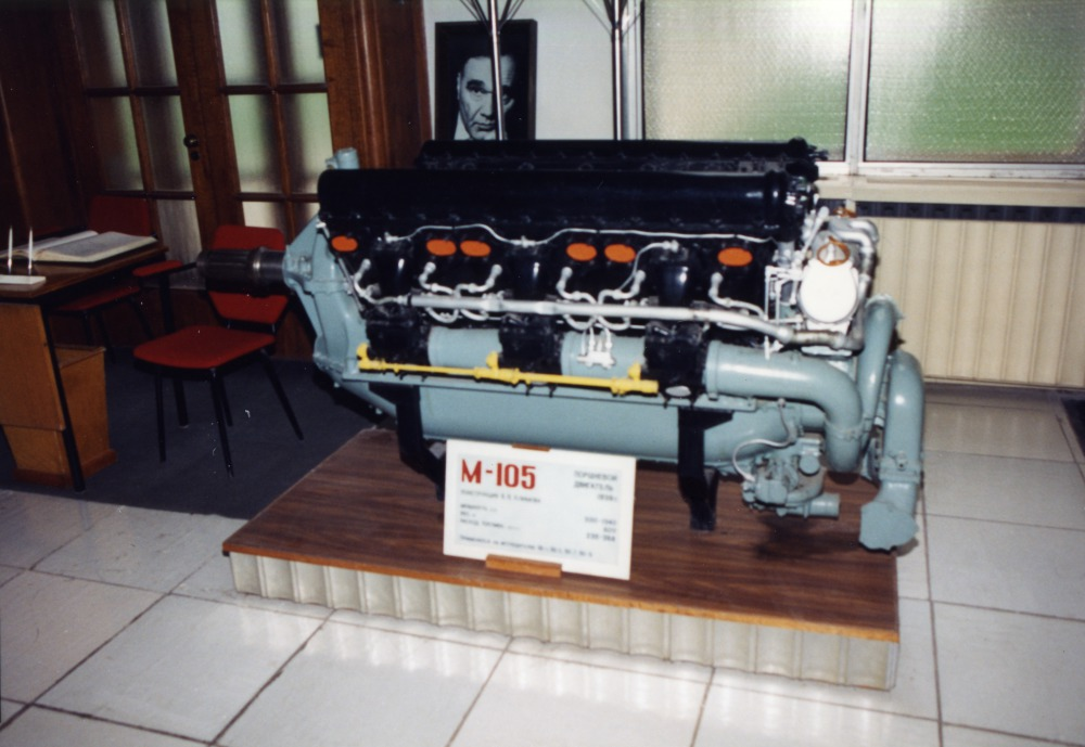 PictionID:42250616 - Title:Klimov M-105 Yakovlev Museum Moscow Sep93 - Catalog:15_003119 - Filename:15_003119.tif - --- Image from the Charles Daniels Photo Collection album "Moscow Air Museums" which contains images Mr. Daniels took while visiting Russia----PLEASE TAG this image with any information you know about it, so that we can permanently store this data with the original image file in our Digital Asset Management System.----SOURCE INSTITUTION: San Diego Air and Space Museum Archive